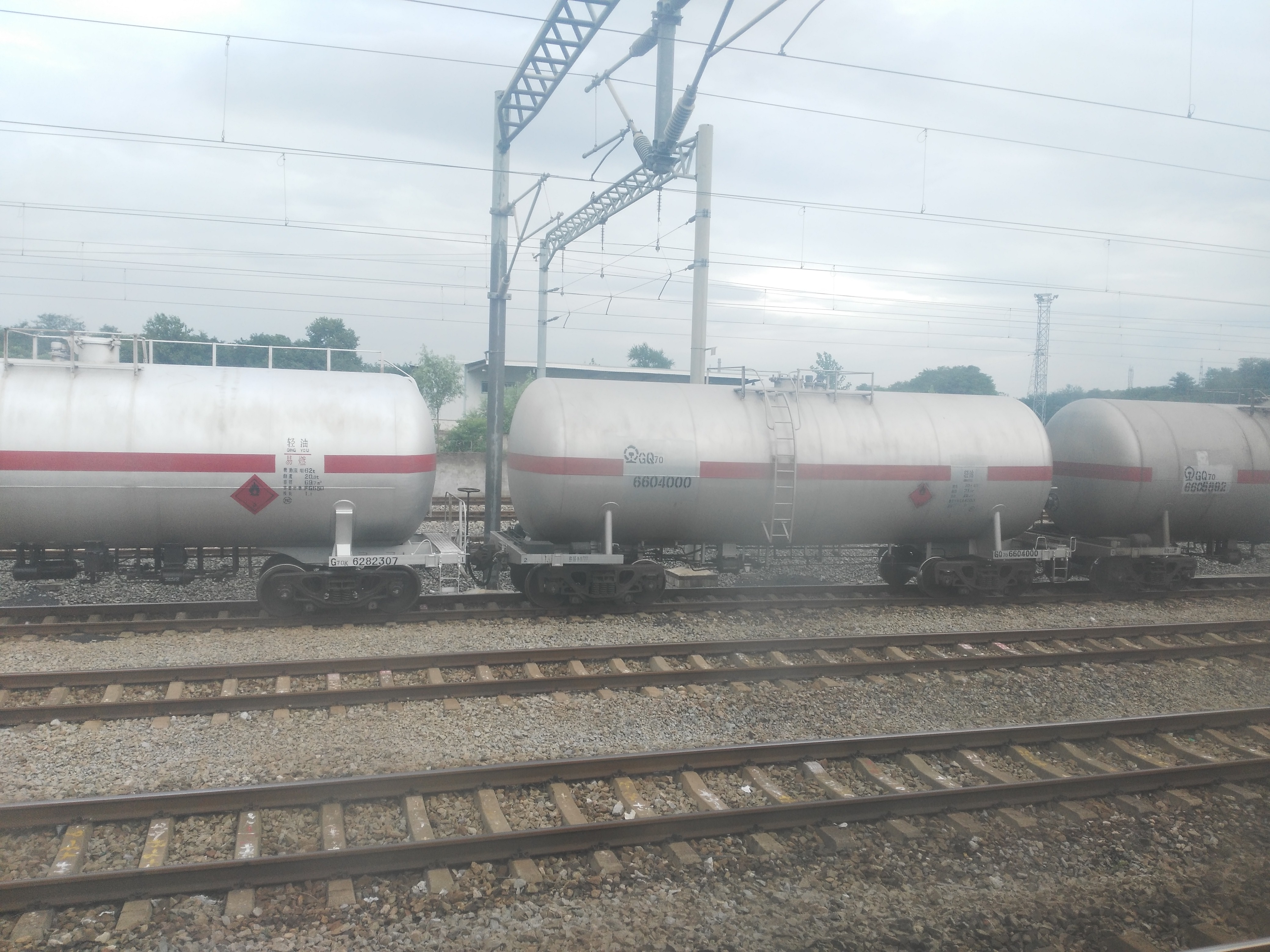 A GQ70 train car numbered 6604000. The photo was taken at Xindian Station on the Wujiu Line.